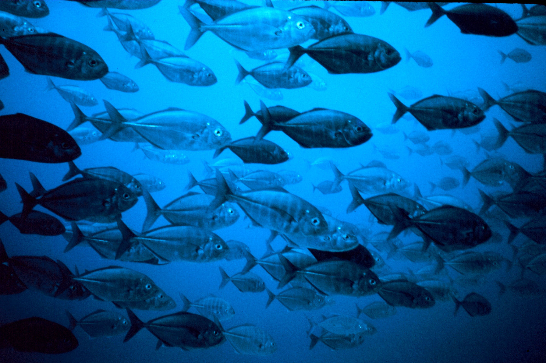 Possibly a mating congregation of jacks - males darker Jacks are a high-level inshore predator built for speed. Identified by user as Uraspis helvola